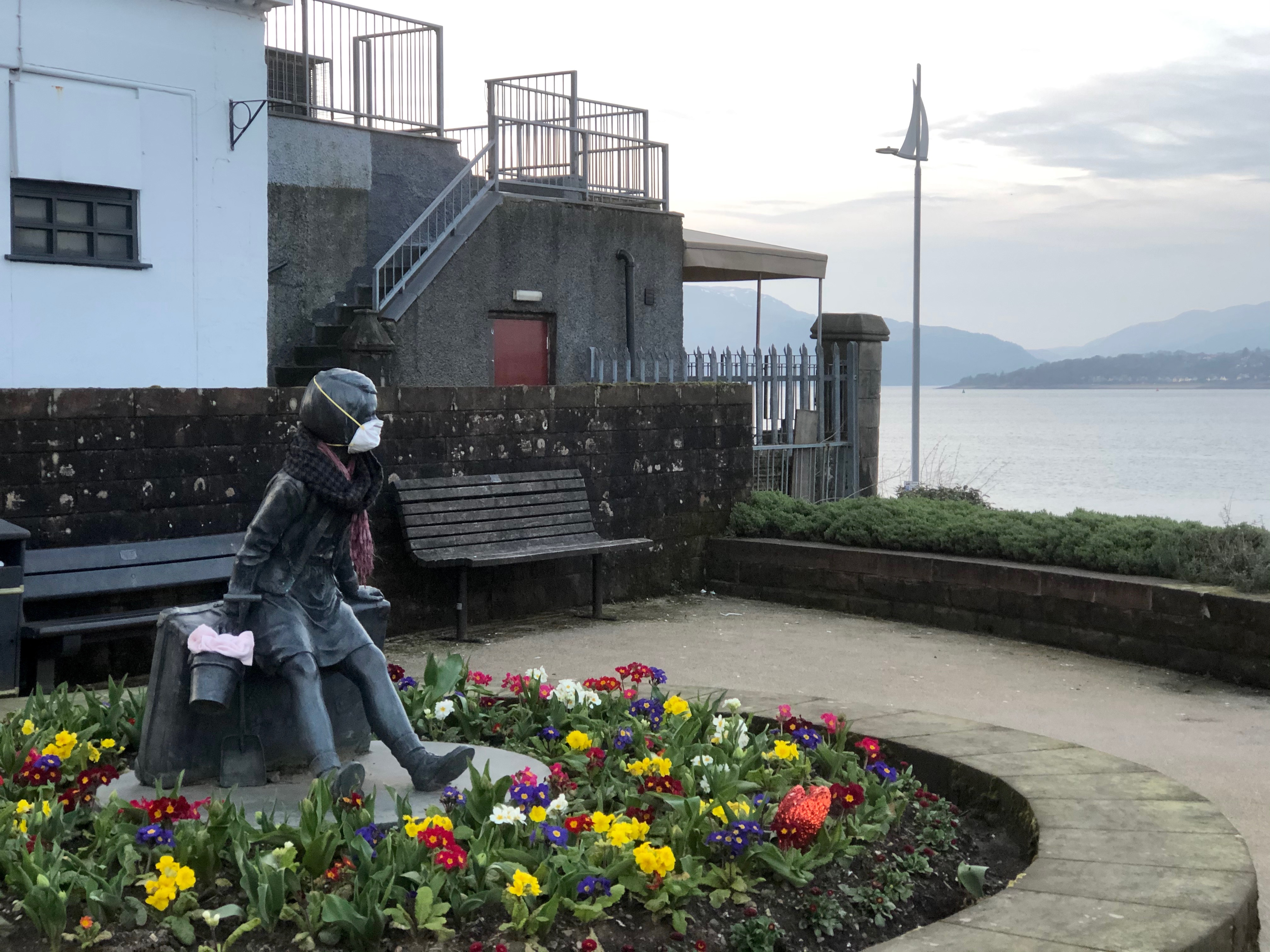 "Wee Annie", a sculpture at the north end of Gourock's Kempock Street, commemorates the town's past as a seaside resort, and its pier as a setting-off point for Clyde Steamers taking holidaymakers down the Firth of Clyde. The statue, also known as "Girl on a Suitcase", was created by Angela Hunter as part of a public art project commissioned by Riverside Inverclyde in 2011. It has become a local tradition to keep Wee Annie warm with a scarf and woollen hat, during the 2020 coronavirus pandemic in the United Kingdom she was duly given a face mask. Behind her, Cleats Bar has been closed as part of action to minimise spread of the virus. Lochrie, Susan (2015). Gourock's 'Wee Annie' back from her holidays. Greenock Telegraph. Readers' Pictures - Wee Annie Taking No Chances With Coronavirus. Inverclyde Now (2020-03-22).